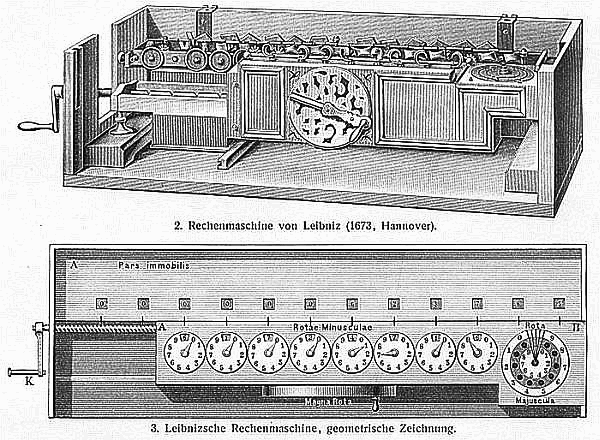 Drawing of the 'Stepped Reckoner', a mechanical calculator invented by German mathematician Gottfried Wilhelm Leibniz in 1674 and completed in 1694. About 67 cm (23 inches) long. In the upper view the top plate is removed to show the works. This was the first calculating machine able to do all four arithmetic operations: addition, subtraction, multiplication, and division. The machine consists of two parts, the 12 digit accumulator section (pars immobilis) in back and the 8 digit input section in front. The input section can be moved using the crank (K) and worm gear to align different digits of the two sections. The 8 dials (rotae minusculae) on the input section are used to set the operand number into the machine. The telephone-like dial (rota majuscula) is used to set the multiplier. Turning the crank (magna rota) on the front performs the calculation. The result appears in the 12 windows in the accumulator section. Probably only two machines were built; the only surviving one is a 16 digit version in the National Library of Lower Saxony (Niedersächsische Landesbibliothek) in Hannover. For more information see James Redin (2007) A Brief History of Calculators Part 1: The Age of the Polymaths.